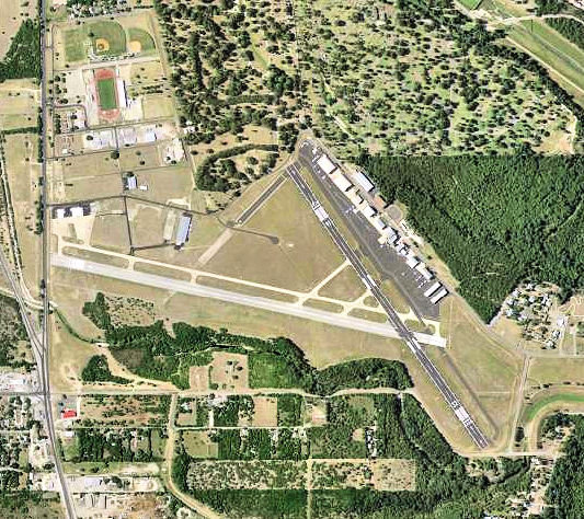 USGS digital orthophoto of Stinson Municipal Airport in Texas